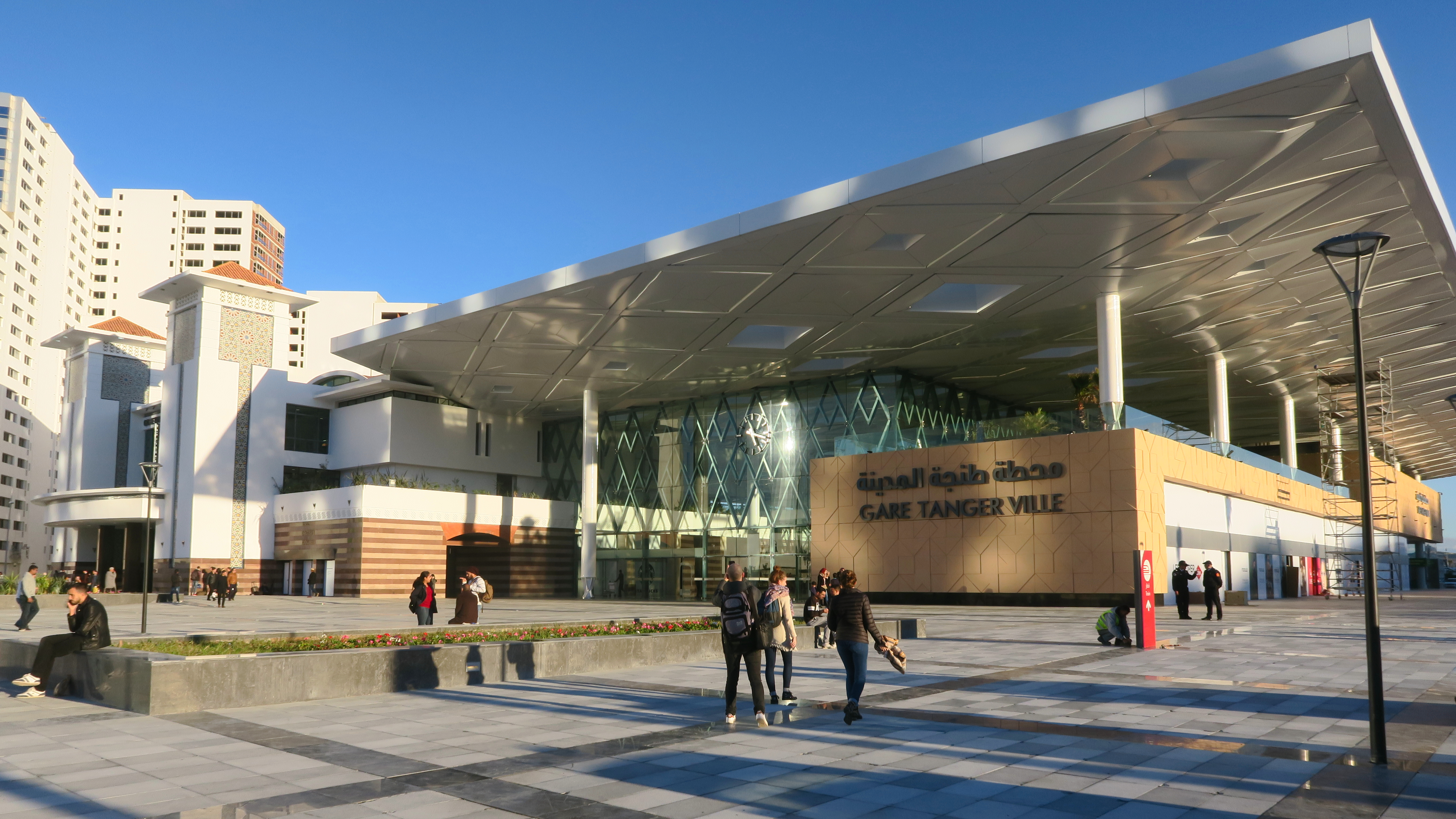 Tanger Ville railway station following the high-speed remodeling, in November 2018.